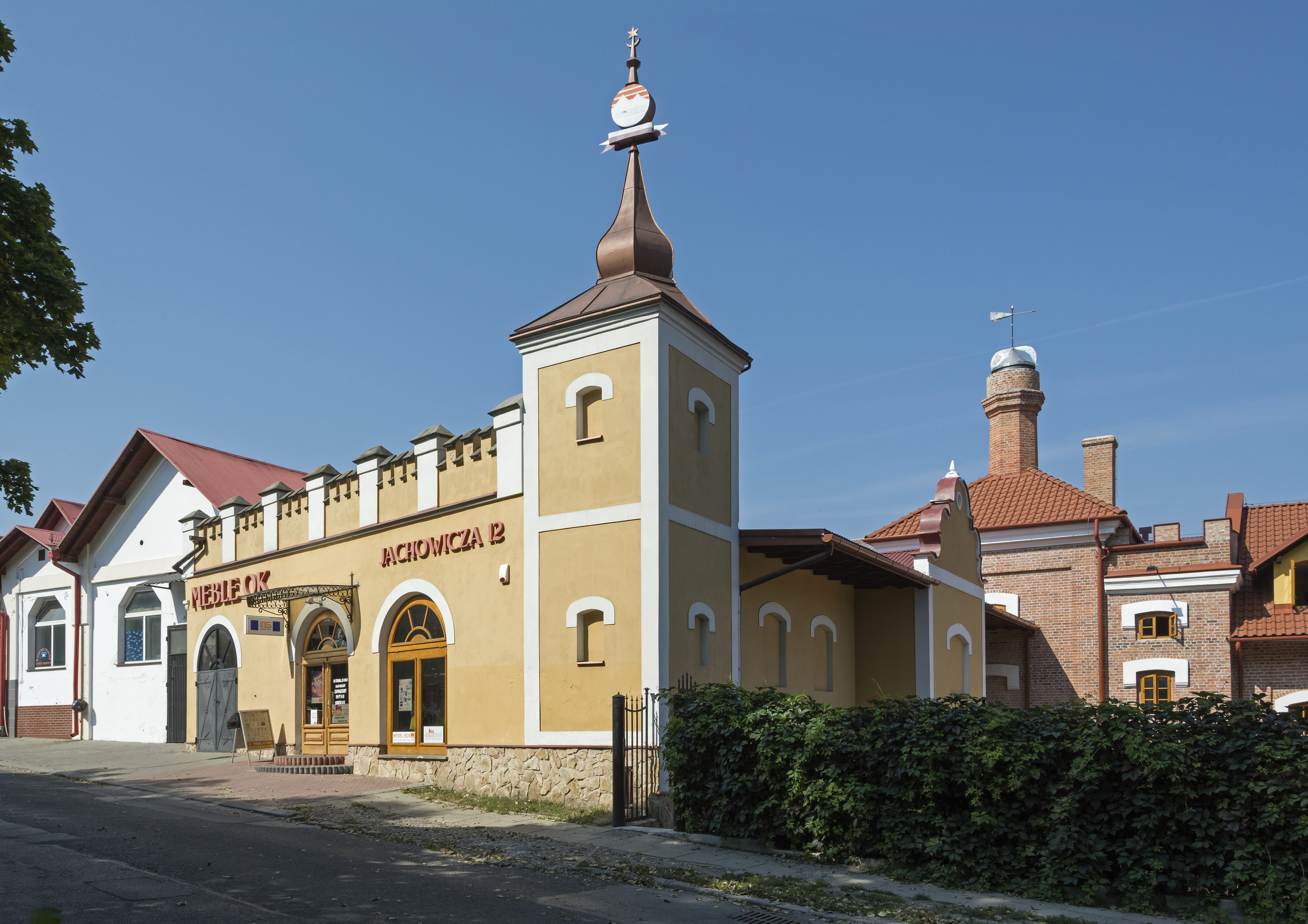 Tarnowskich Brewery in Tarnobrzeg